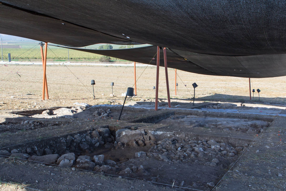 Excavation of Legio VI Ferrata camp near Megiddo, Israel